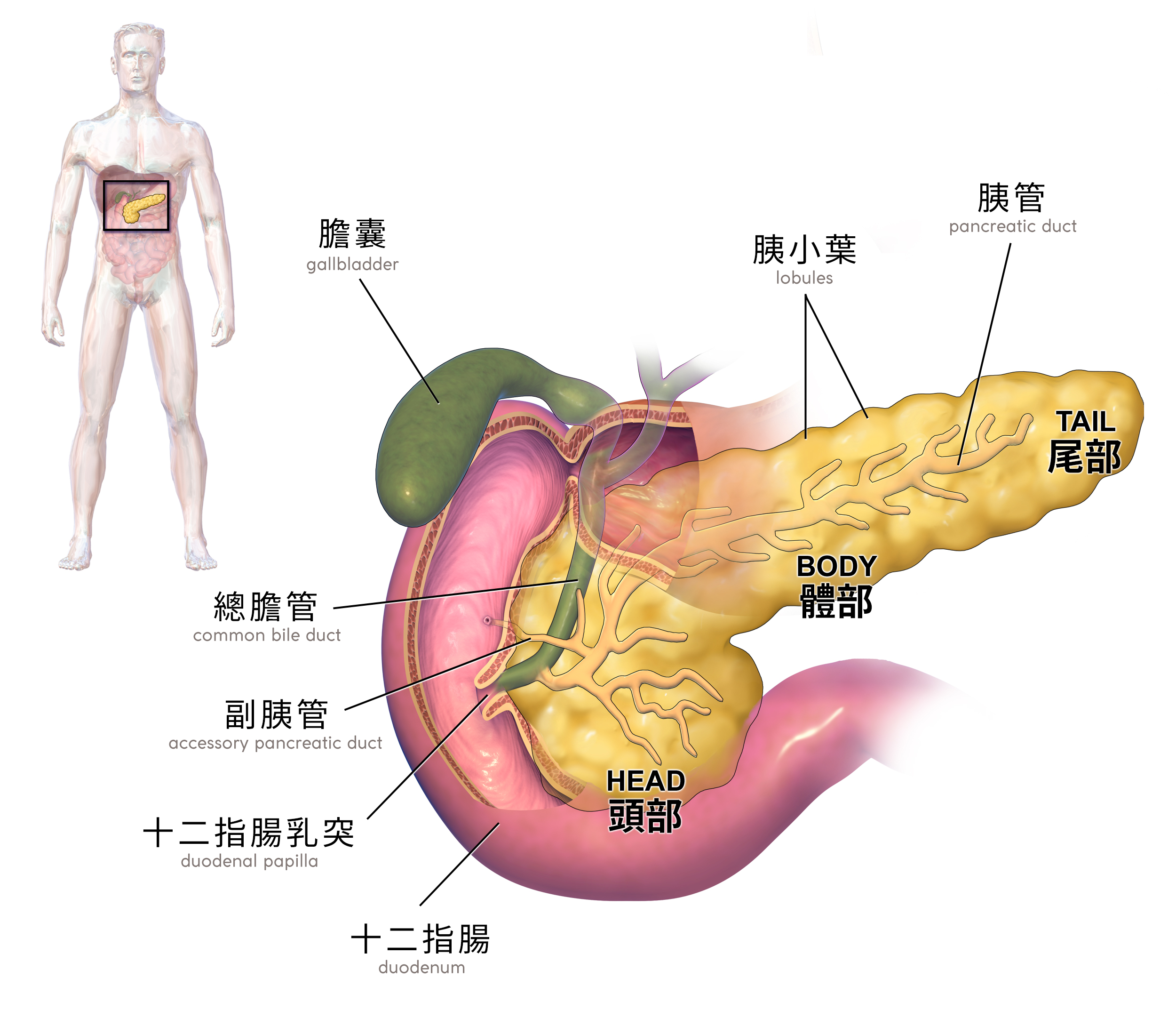 The Pancreas. See a full animation of this medical topic. 中文（台灣）: 胰臟及周圍構造概要